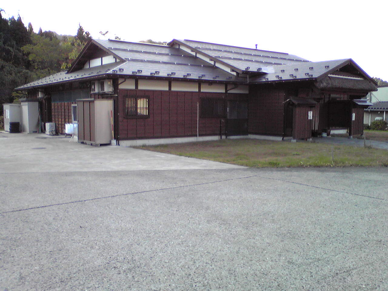 Soba restaurant at Michinoeki Yuki no Furusato Yasuzuka in Joestu City, Niigata Prefecture, Japan